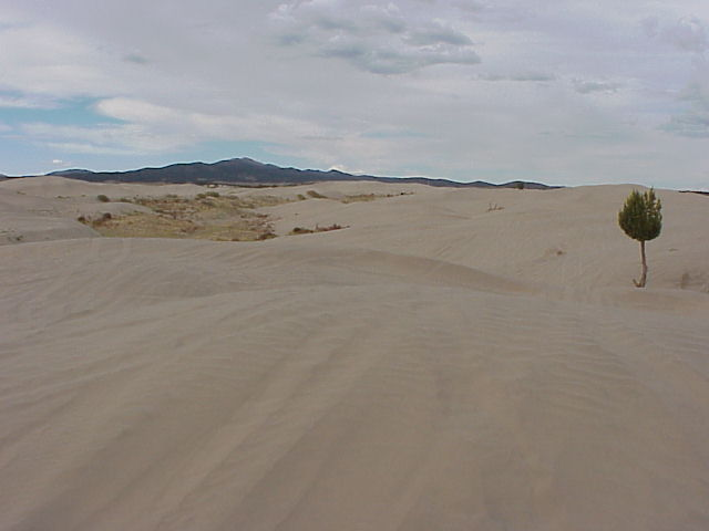 Photo of the Little Sahara Recreational Area near Delta, Utah.